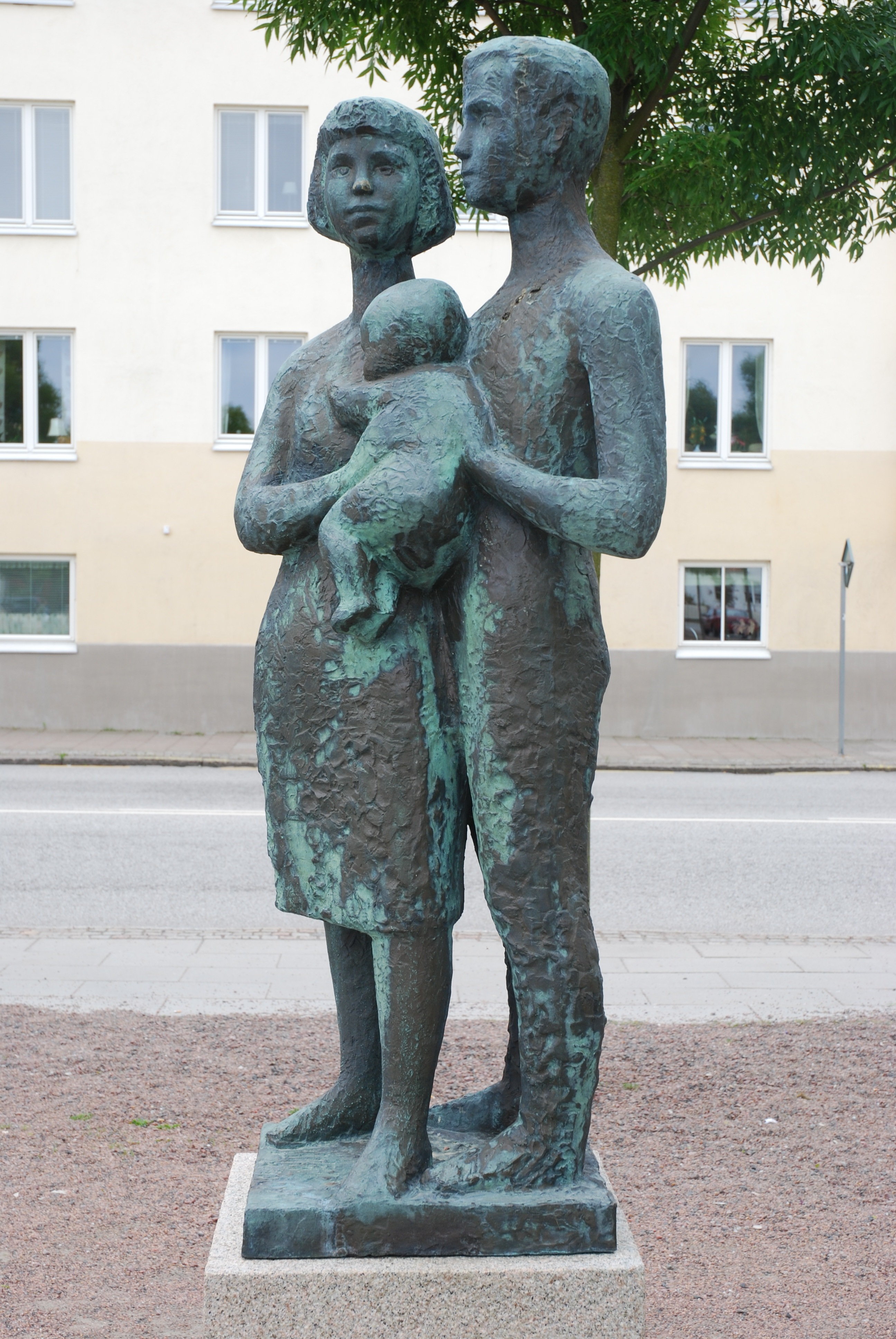 Thure Thörn's Familjen, Limhamn, Malmö, Sweden